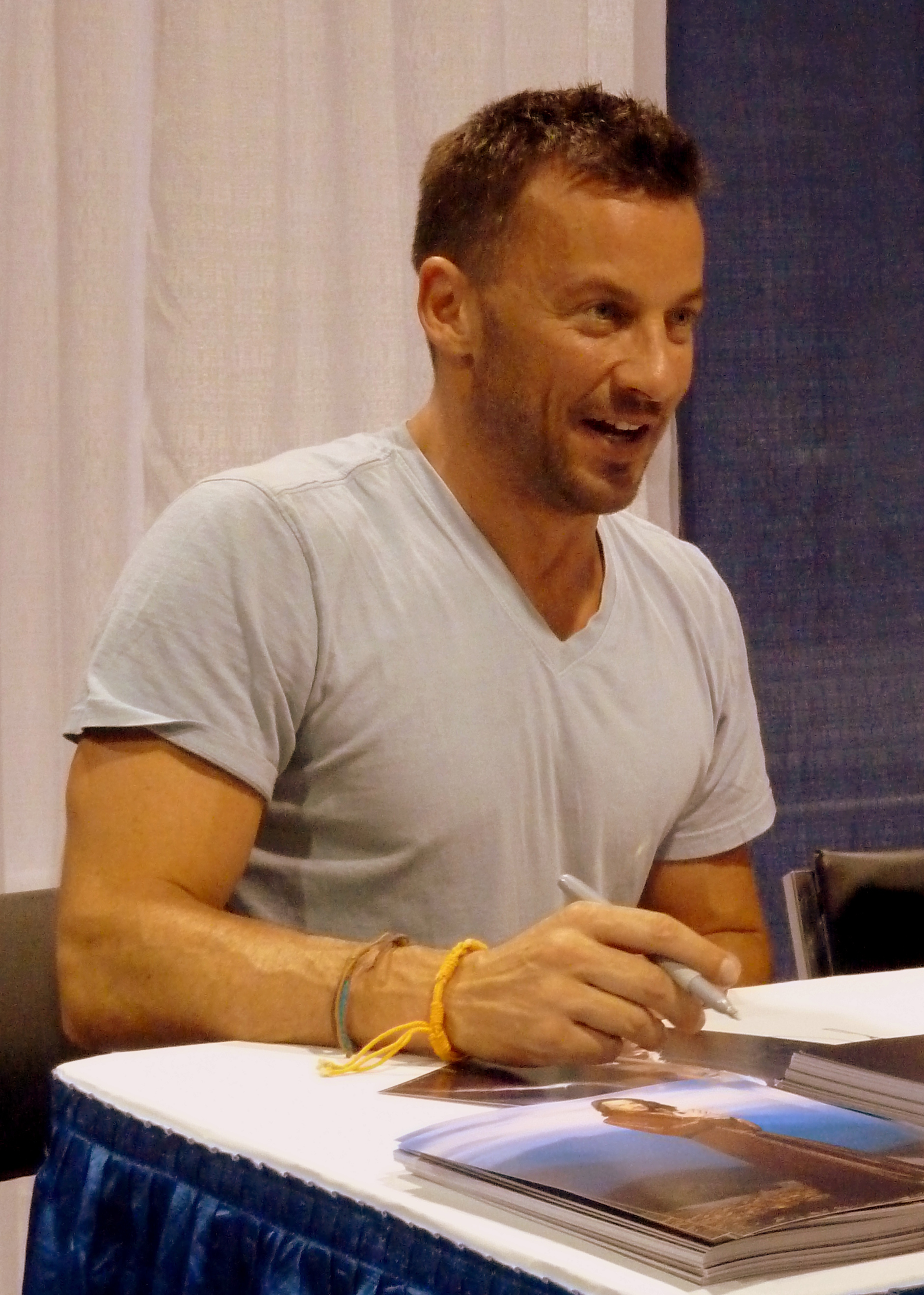 Craig Parker at the 2012 Chicago Comic Con